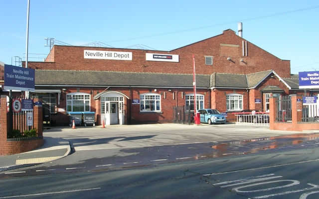 Neville Hill Train Maintenance Depot - Osmondthorpe Lane